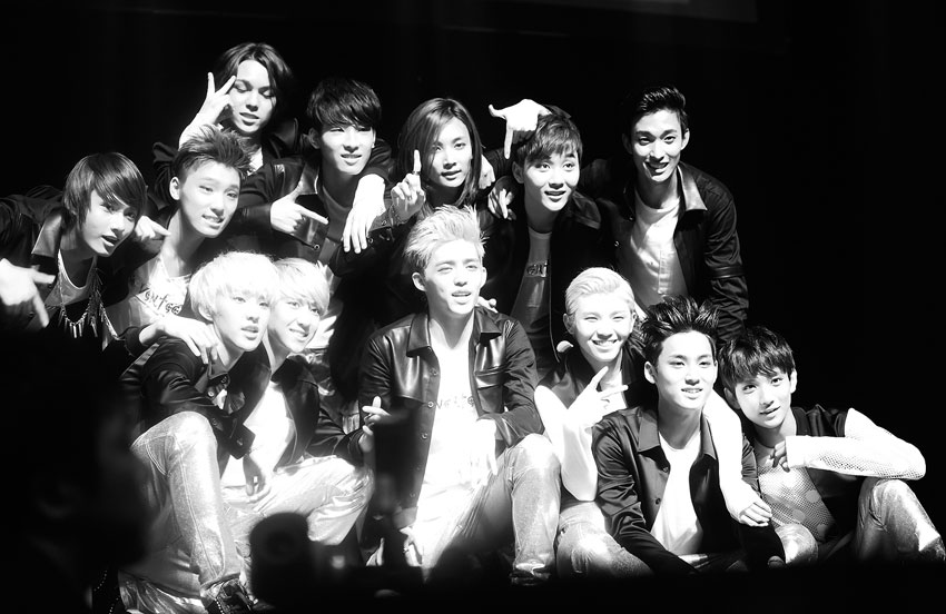 Seventeen at their Seventeen Project debut showcase May 2015. Top row left to right: Jun, Dino, Vernon, Wonwoo, Jeonghan, Seungkwan, and DK. Bottom row left to right: Hoshi, The8, S.Coups, Woozi, Mingyu, and Joshua.